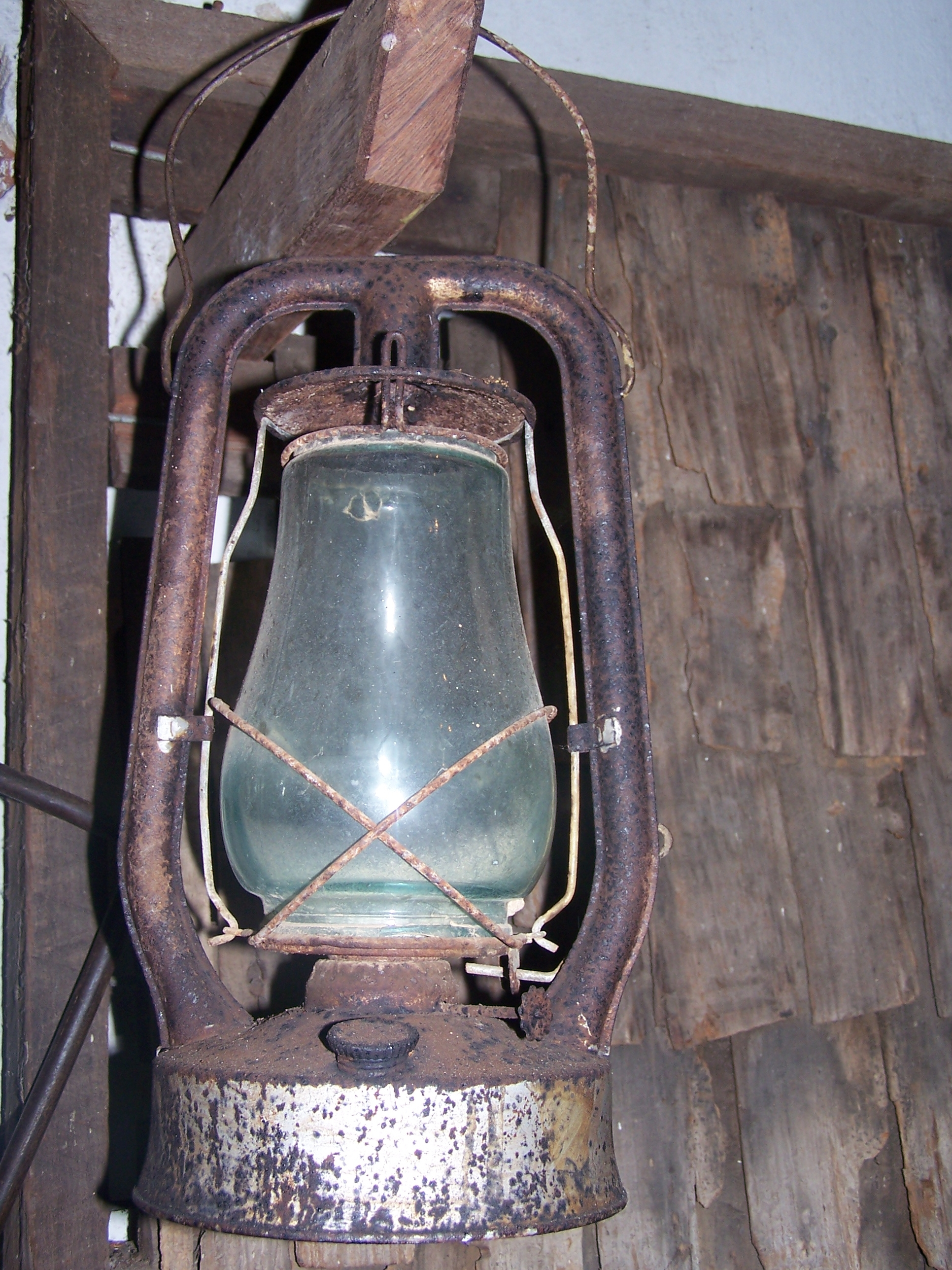 Tranby House kerosene lamp